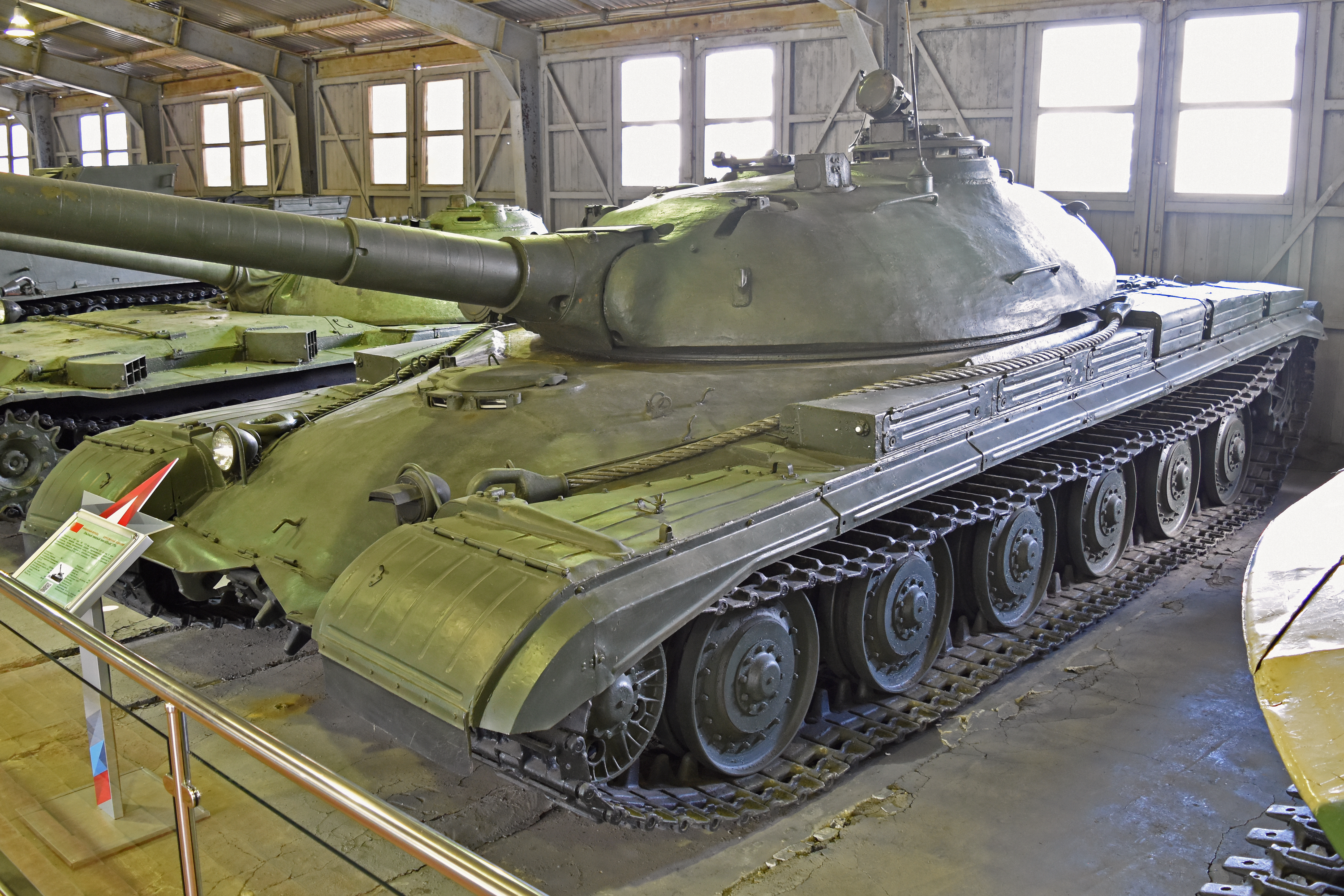 Obeikt 770 (Object 770) was a prototype built in 1957. It was very similar to the Obeikt 277 but had a modified wheel arrangement, changing from seven small wheels each side to six larger wheels. The return rollers were also removed. It did not enter production On display in what is best known as Hall1 of the Kubinka Tank Museum, although its official title is now Pavilion 1 in Area 2 of the Park Patriot museum. Kubinka, Moscow Oblast, Russia. 24th August 2017.